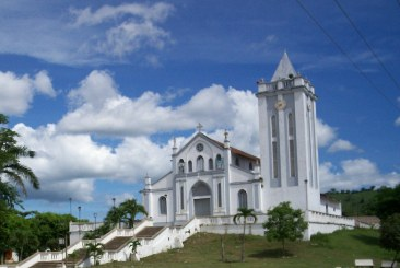 Iglesia san juan nepomuceno